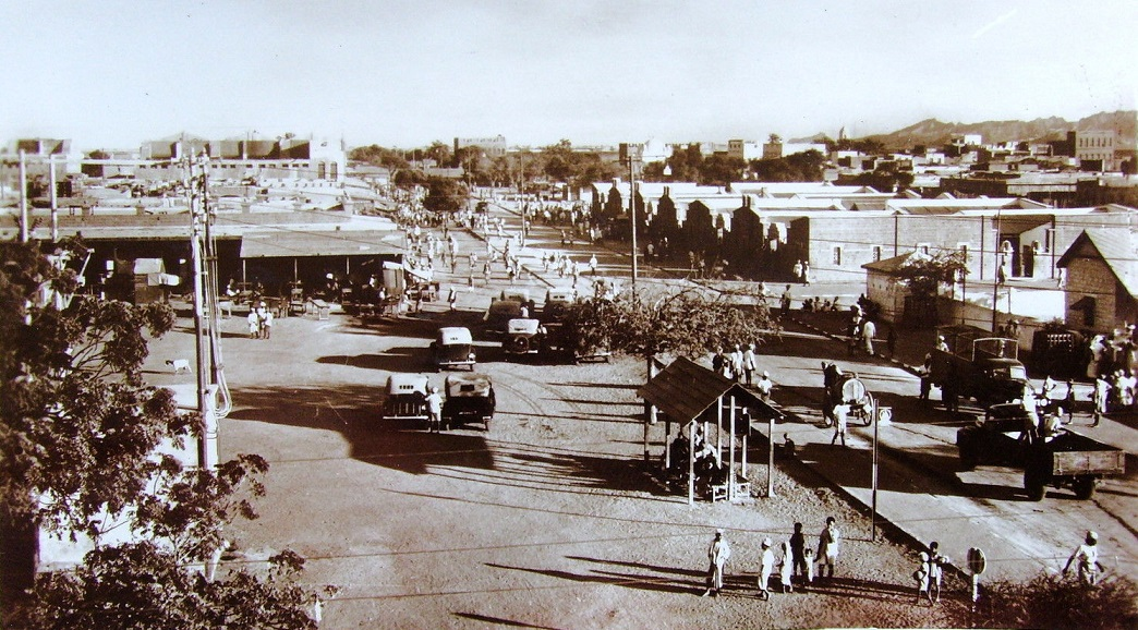 Sheikh Othman at the border between Aden Colony and the Sultanate of Lahej (Western Aden Protectorate). Cropped from a postcard published c. 1935. The village of Sheikh Othman was purchased from the Sultan of Lahej in 1881 and annexed to Aden Colony. Sheikh Othman's precious water wells were to supply most of Aden's drinking water for many decades. Soon after the purchase, the British built a new village with about 150 houses and a school and dispensary, and measures were taken to drive the surplus population from the Steamer Point in the port of Aden to Sheikh Othman. Within 10 years the population rose from 600 to over 7,200. (R. J. Gaven, Aden Under British Rule, 1839-1967, 1975, p.189)